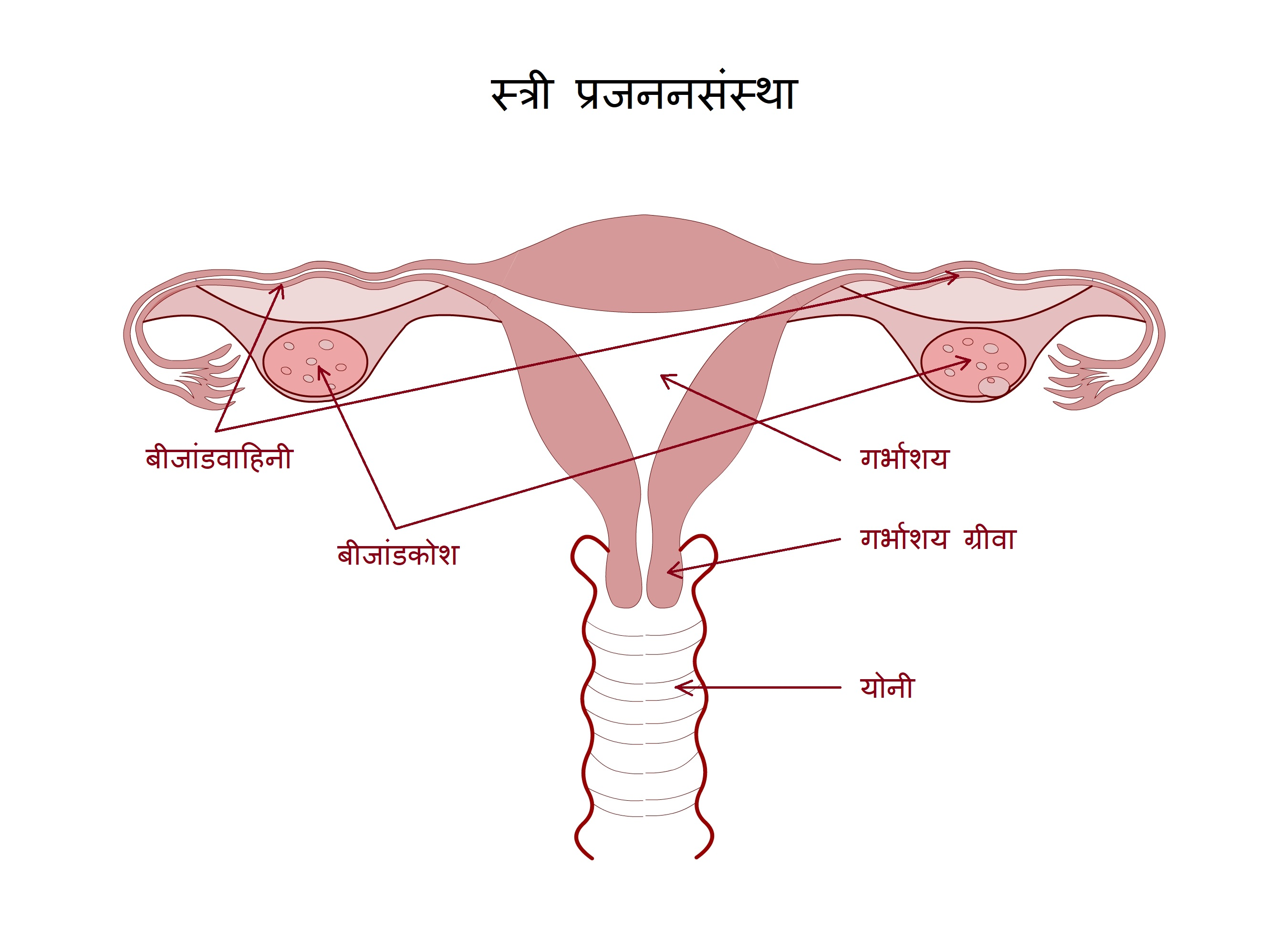 Schematic Figure showing Human Female Reproductive System